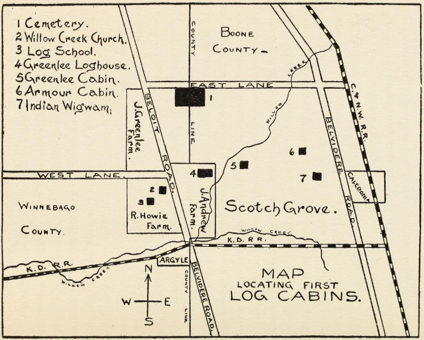 Map locating first cabins in Argyle, IL from The Argyle Settlement in History and Story by Daniel G Harvey, Beloit WI, 1924